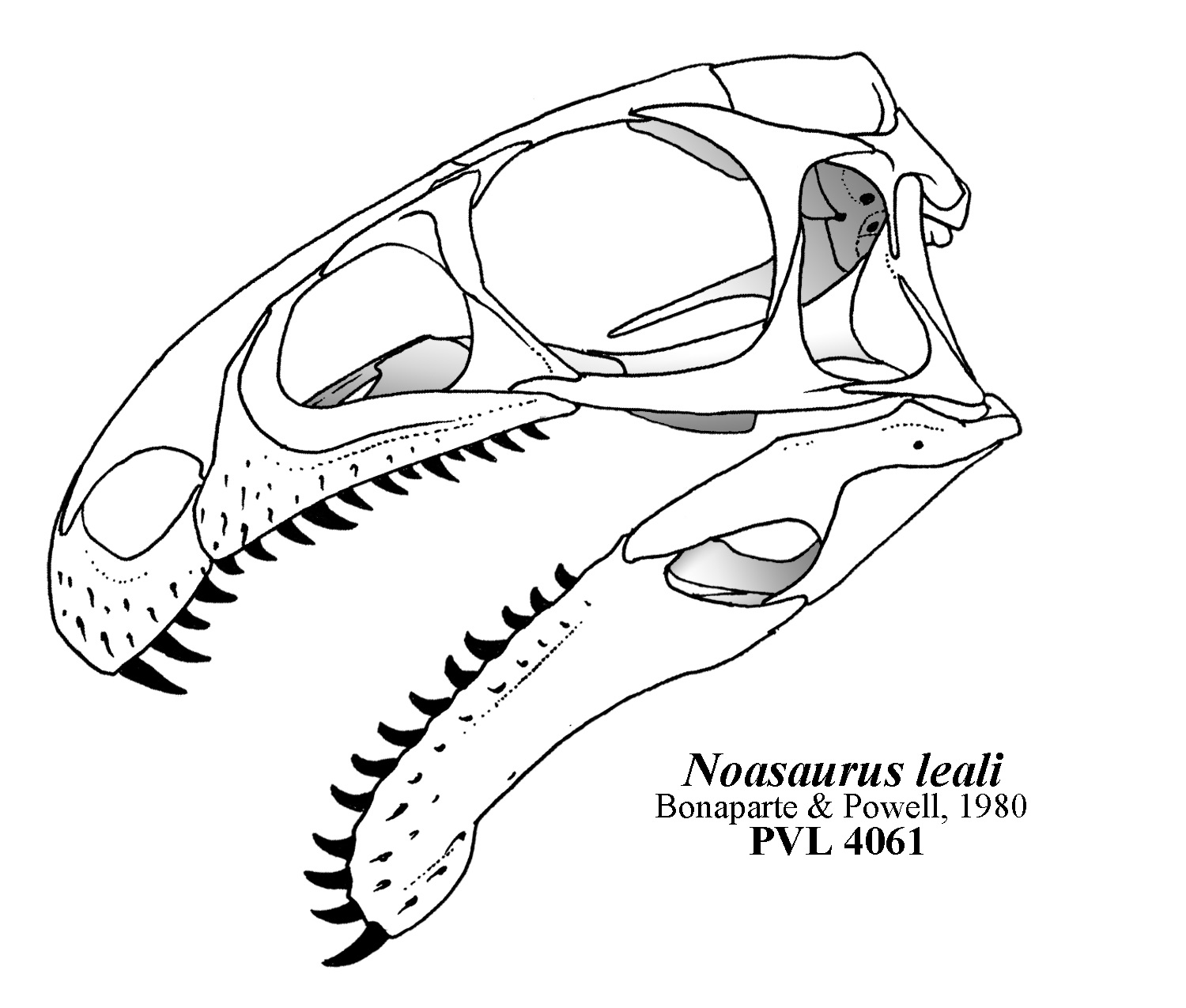 Skull reconstruction of Noasaurus leali. Only part of the maxilla and postorbital are really known, so this is mostly hypothetical, based on Masiakasaurus